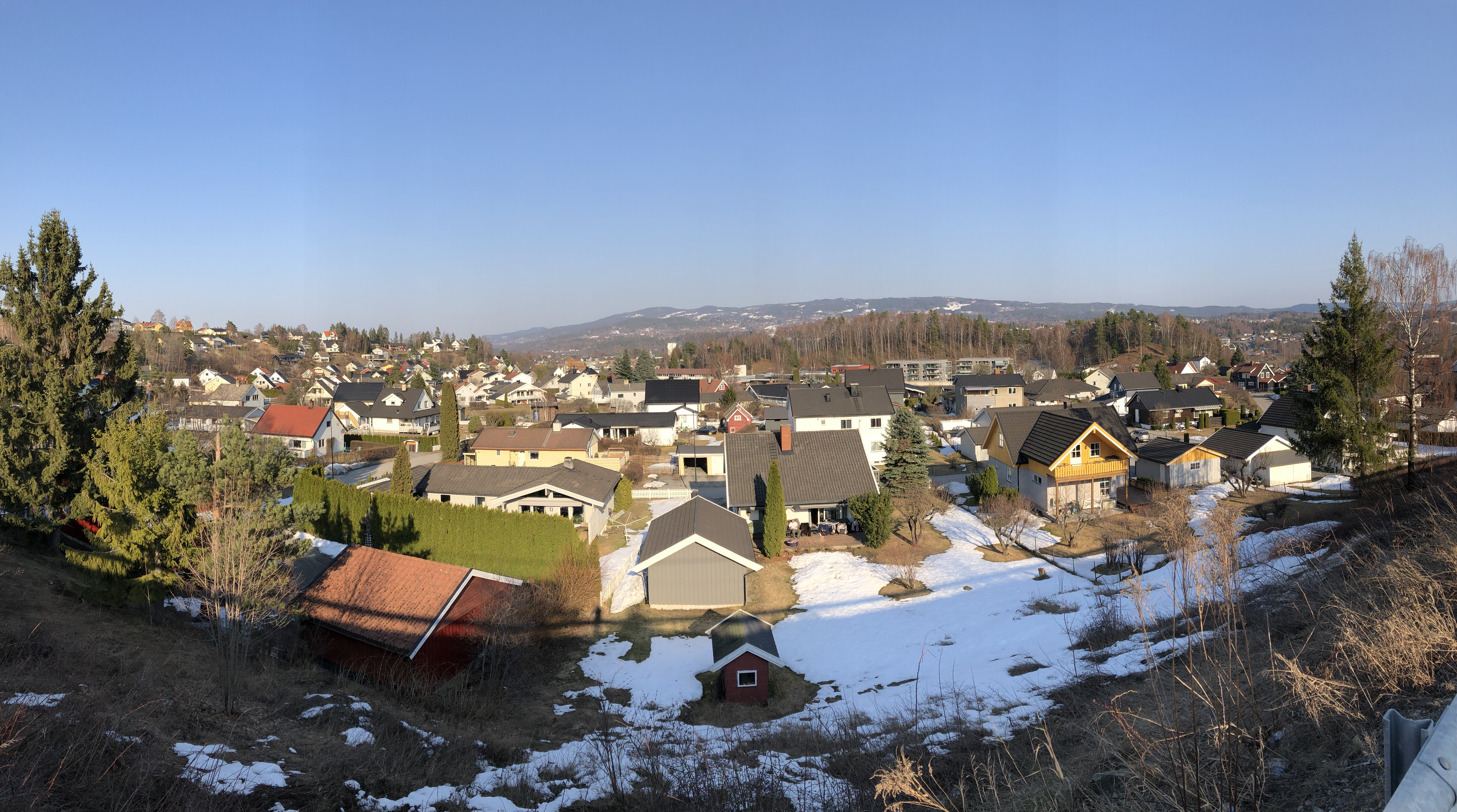 Panorama view over Storløkka in Hønefoss, Buskerud county in Norway.